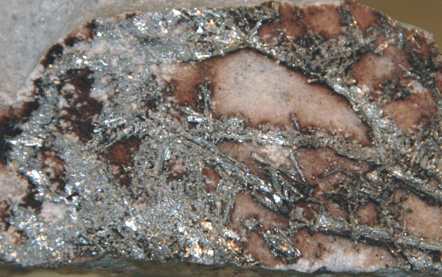 Sylvanite ((Au,Ag)2Te4) (silver-colored) from the Cripple Creek Diatreme (Early Oligocene, 32 Ma) of central Colorado, USA (ER # 1956, Ed Raines loan to Colorado School of Mines Geology Museum, Golden, Colorado, USA). The Cripple Creek Gold District of central Colorado, USA is famous for its unusual gold and silver mineralization. Precious metal mineralization occurs in the Cripple Creek Diatreme, the root zone of a deeply eroded volcano dating to the Early Oligocene (32 Ma). The dominant lithology at Cripple Creek is the scarce igneous rock phonolite, an alkaline, intermediate, extrusive igneous rock. Cripple Creek gold can be found in its native state (Au), but it typically occurs in the form of gold telluride minerals (for example, sylvanite - (Au,Ag)2Te4, calaverite - AuTe2, petzite - Ag3AuTe2, krennerite - (Au,Ag)Te2, and nagyagite - Pb5Au(Sb,Bi)Te2S6). Silver also occurs in some Cripple Creek minerals, including sylvanite, petzite, krennerite, hessite - Ag2Te, tennantite - (Cu,Ag,Fe,Zn)12As4S13, acanthite - Ag2S, and tetrahedrite - (Cu,Fe,Ag,Zn)12Sb4S13.